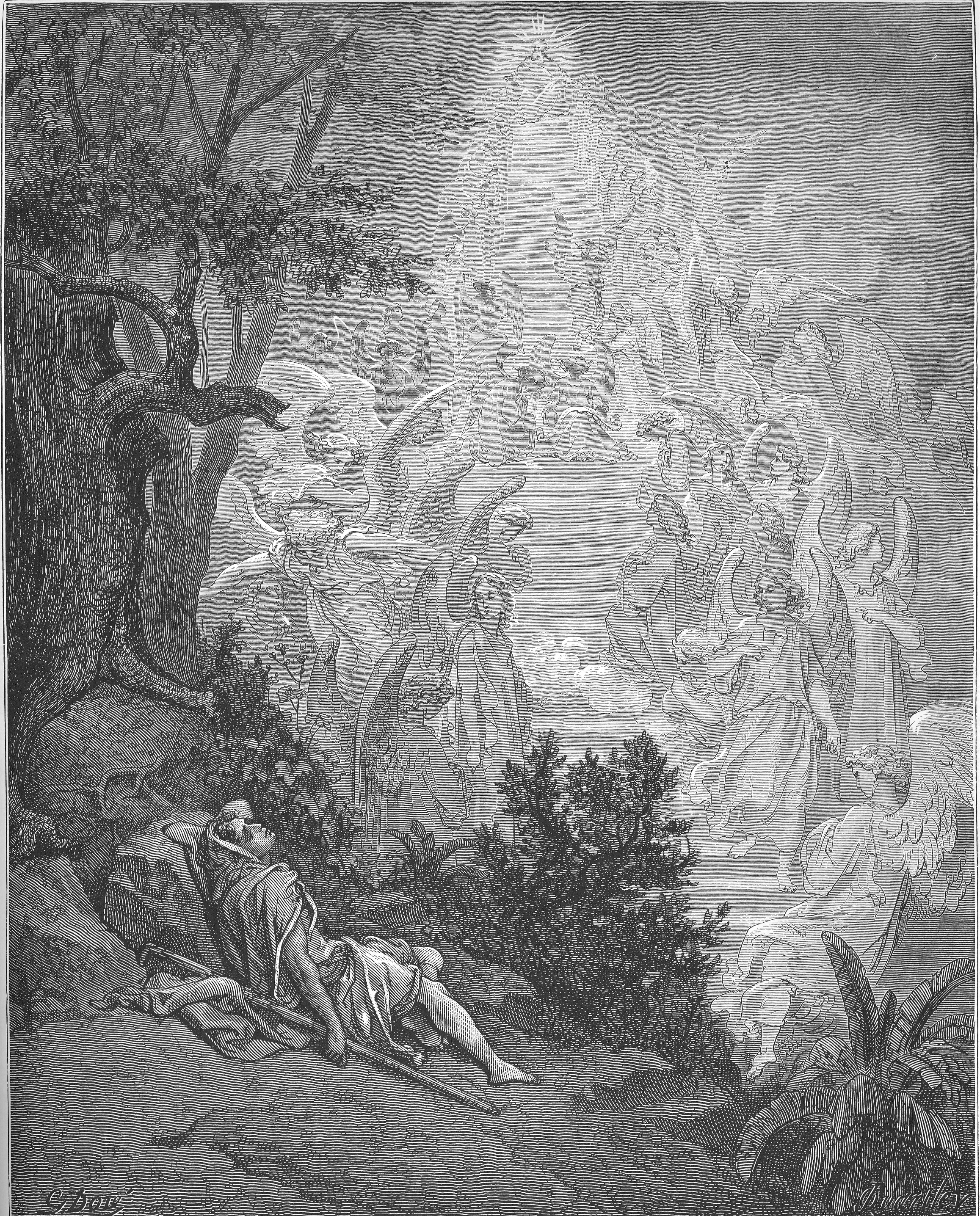 Jacob's Dream (Gen. 28:10-15)